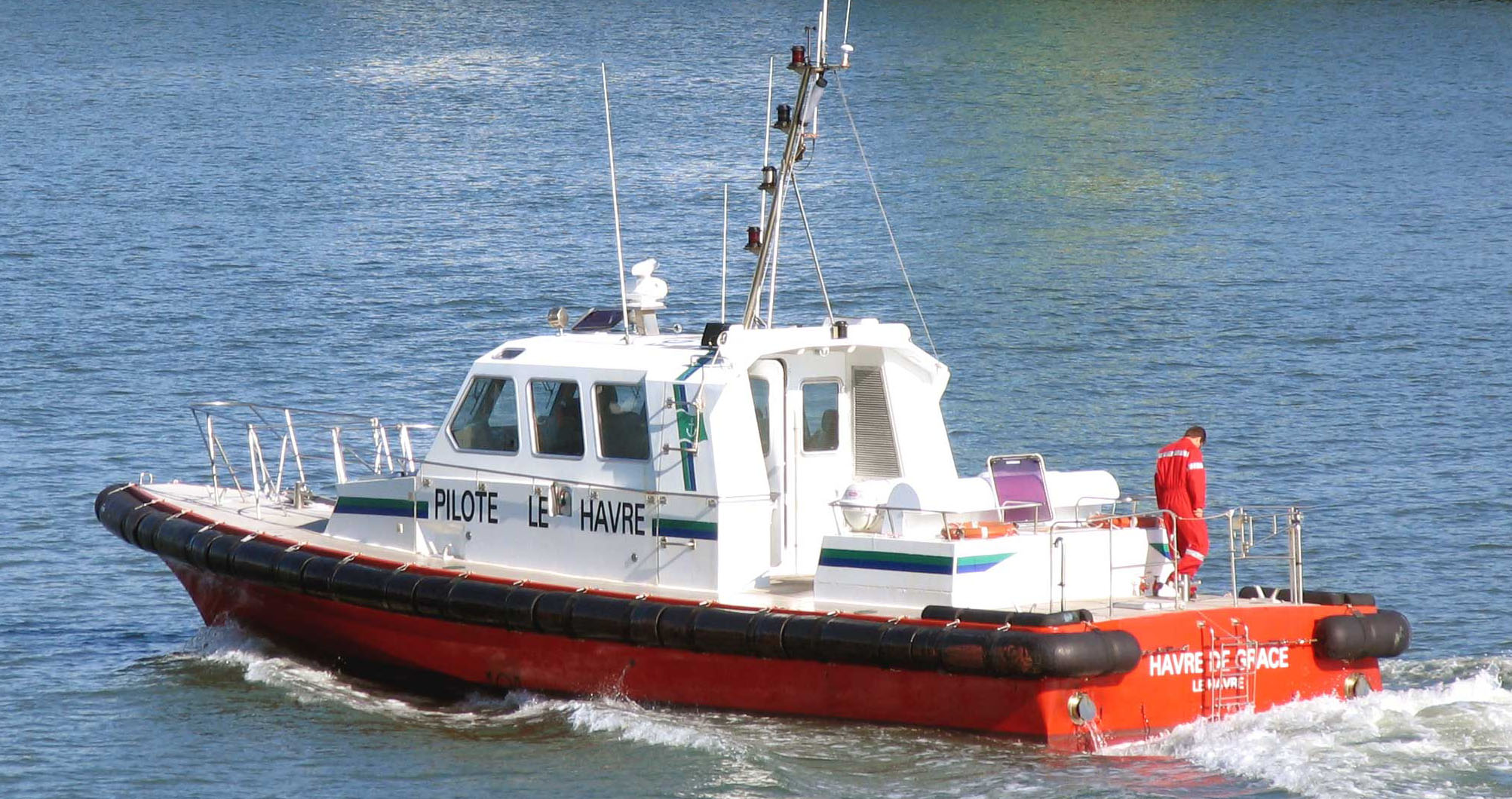 Cropped version of Image:Bateau-pilote-du-havre.jpg.